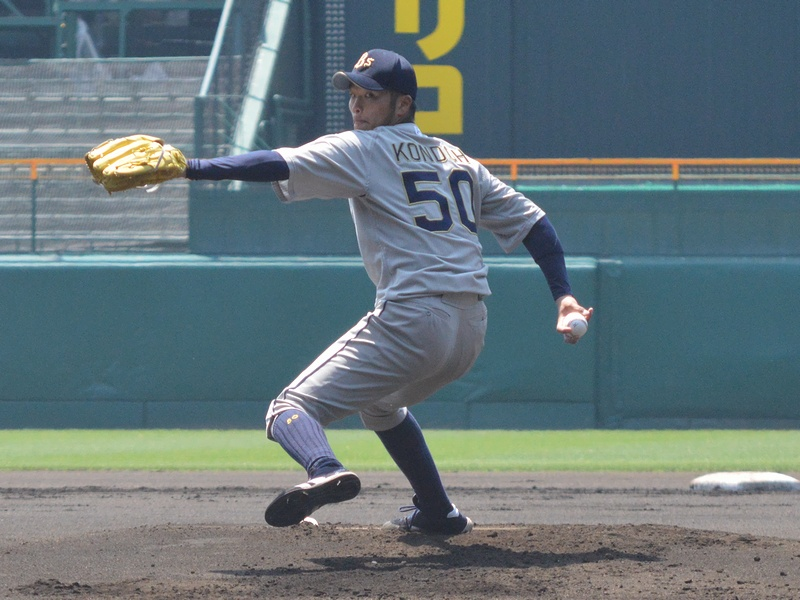 OB-Kazuki-Kondo20130514